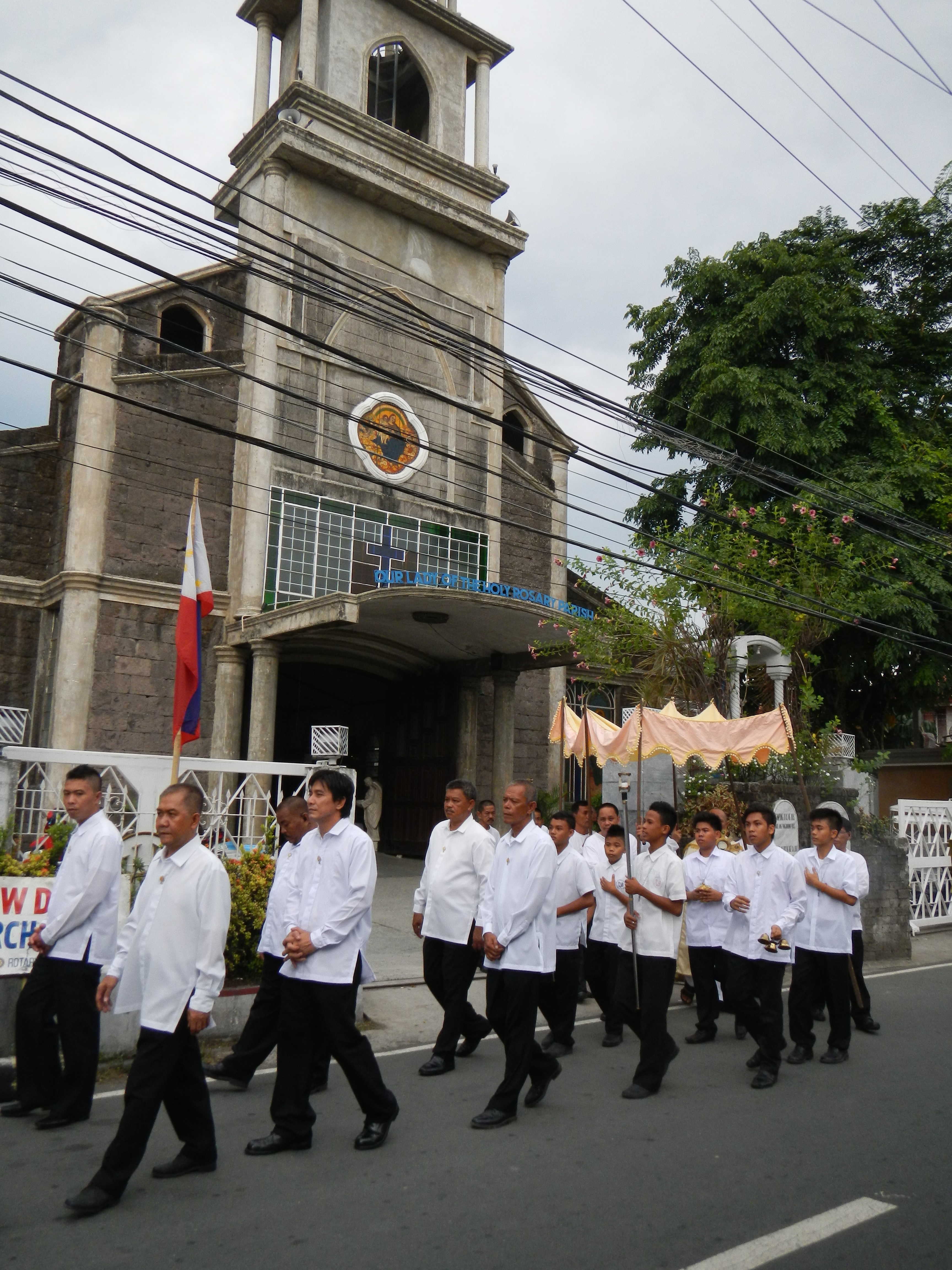 Rare, raw, unedited and original photos of the June 2, 2013 Sunday Corpus Christi [1] procession [2] of/by the "Our Lady of the Holy Rosary Parish Church" of Cardona, Barangay Iglesia, Cardona, Rizal with traditional costumes; the Feast of Corpus Christi, which is a moveable feast, is celebrated on the Thursday after Trinity Sunday [3]; The Monstrance[4] is being carried by Cardona, Rizal Church Parish Priest in procession using a humeral veil[5] --- Cardona, Rizal[6] Coordinates: 14°27'32"N 121°13'26"E [7] Website [8] geographical location: Rizal, Region 4, Philippines, Asia Geographical coordinates: 14° 29' 11" North, 121° 13' 46" East This place is situated in Rizal, Region 4, Philippines, its geographical coordinates are 14° 29' 11" North, 121° 13' 46" East and its original name (with diacritics) is Cardona.[9] [10][11] [12] Cardona is a first class urban municipality in the province of Rizal, Philippines. According to the 2010 census, it had a population of 47,414 inhabitants in 7,953 households. Cardona is in District 2 of Rizal. Cardona is politically subdivided into 18 barangays, 11 of which are on the mainland and 7 on Talim Island.[13] ---------[N.B. June 2, Sunday day, 2013 Photography of Angono, Rizal[14], Binangonan, Rizal[15] and Cardona, Rizal[16]: 80% cloudy and 20% sunny weather using my Nikon AW 100 waterproof shockproof camera. From Bulacan at 10:45 a.m., I took photo at 12:25 pm of Goldenhills Jewelry of Antonio Z. Atienza, Jr.[17] in Robinsons Ortigas; and reached Angono, Rizal junction, crossing at 2:06 pm, then took photos of Binangonan Municipal Hall at 2:44 pm; I finished Cardona, Rizal photography at 5:17 p.m., and arrived at Bulacan at 9:30 pm after 3+ hours of travel by bus, and started uploading via slow internet at 9:50 pm - I hereby certify that these rarest, raw, original and unedited photos are exclusive for Commons and Wikipedia never uploaded in any Internet or any site, and for the public domain without any condition.]